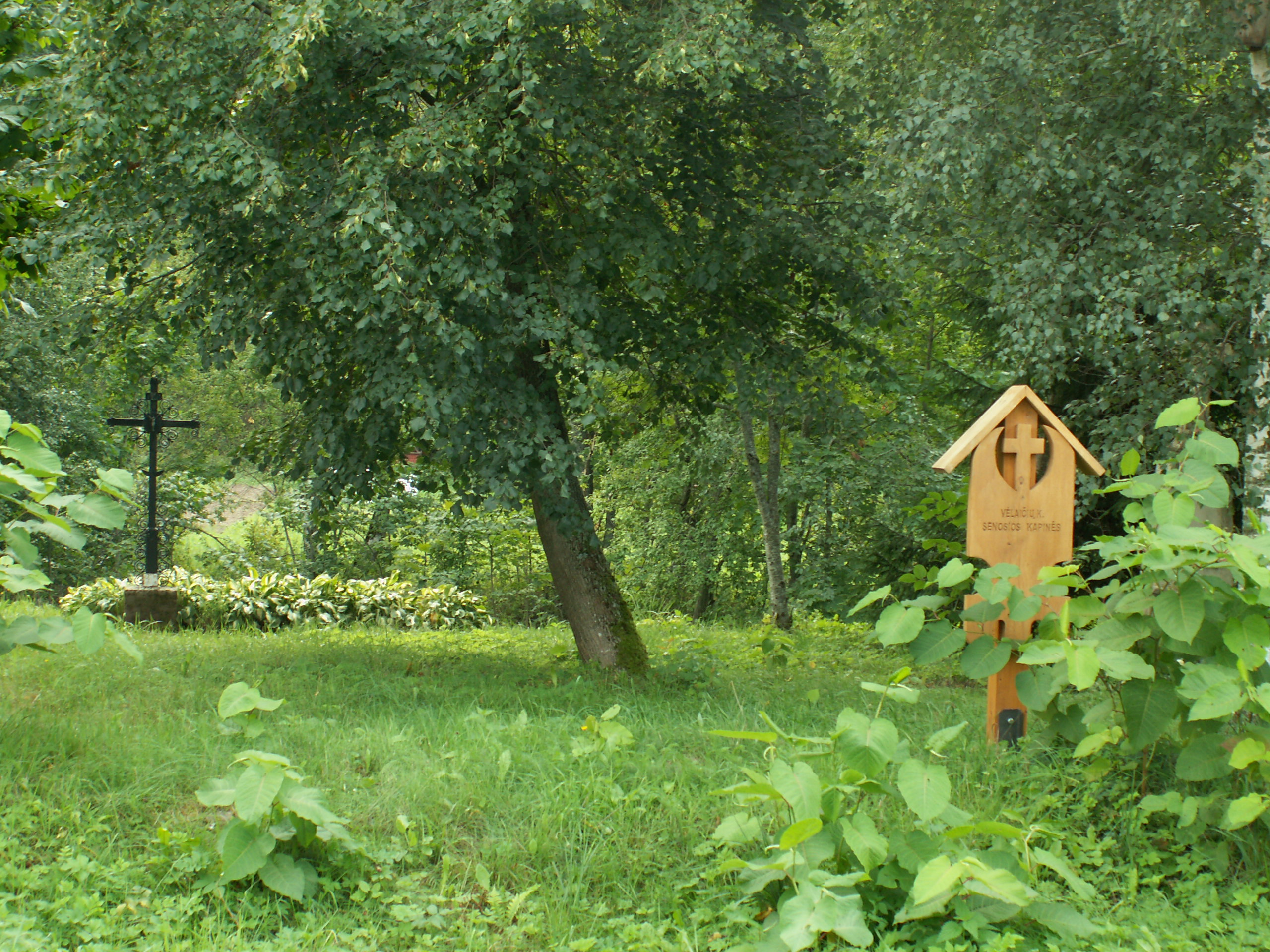 Gintarai, Vėlaičiai cemetery, Kretinga district, Lithuania